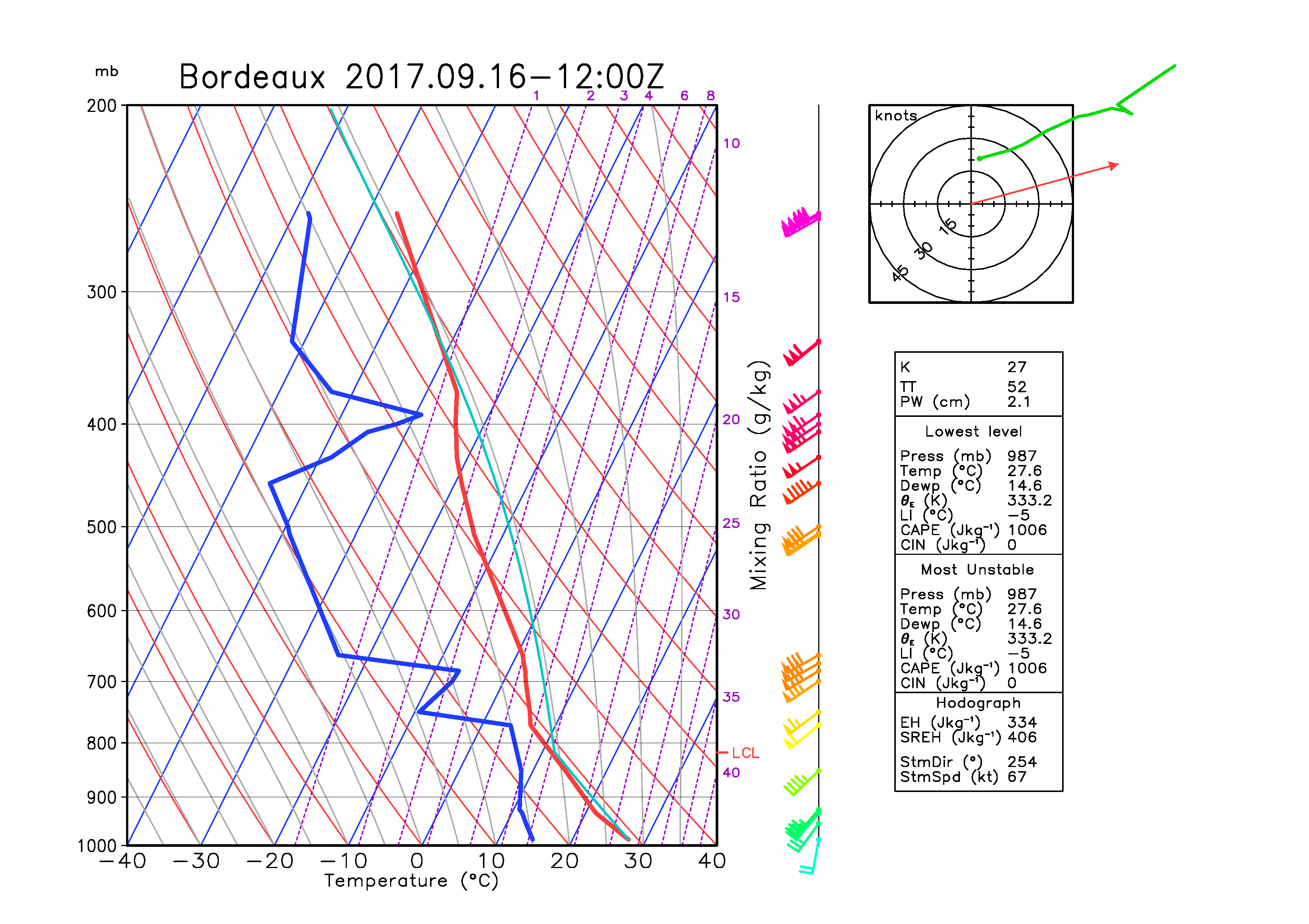 Radio sounding above Bordeaux related to small tornadoes developping in the afternoon.